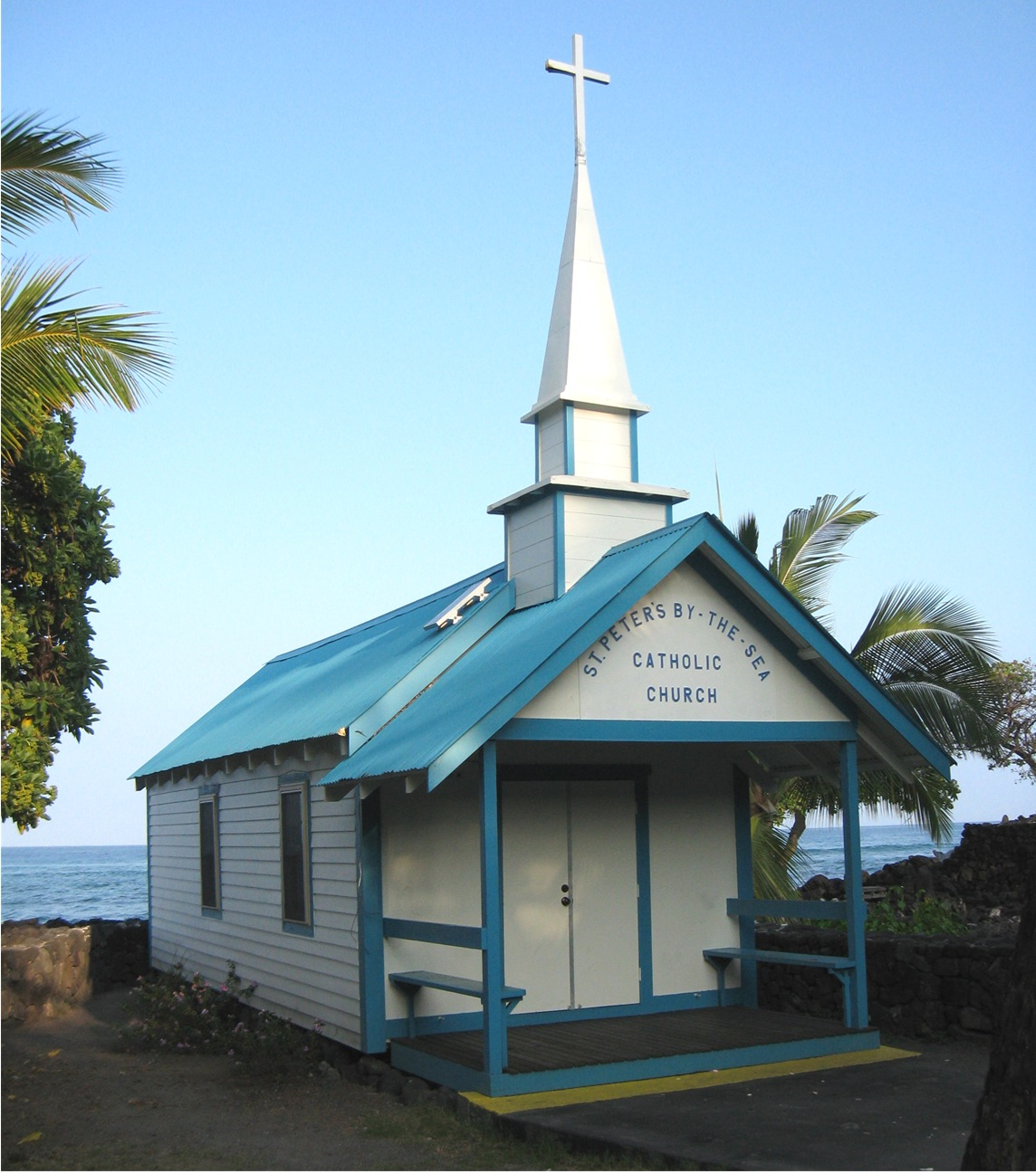 The Church of Saint Peter by the Sea, at Kahaluʻu Bay — on the Big Island of Hawaiʻi. Known as "the Little Blue Church", and built in 1880.